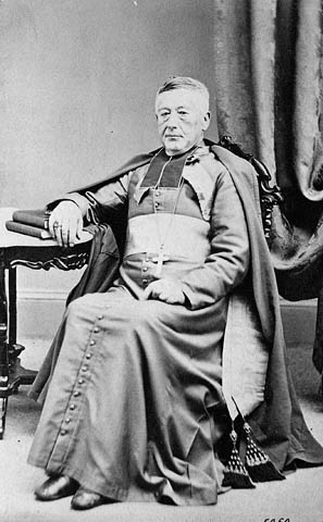 The Most Rev'd Joseph Eugene Guigues, R.C. Bishop of Ottawa, 1865 Source: Library and Archives Canada USE/REPRODUCTION: Restrictions on use/reproduction: Nil Copyright: Expired Credit: Canada. Patent and Copyright Office / Library and Archives Canada / C-021864